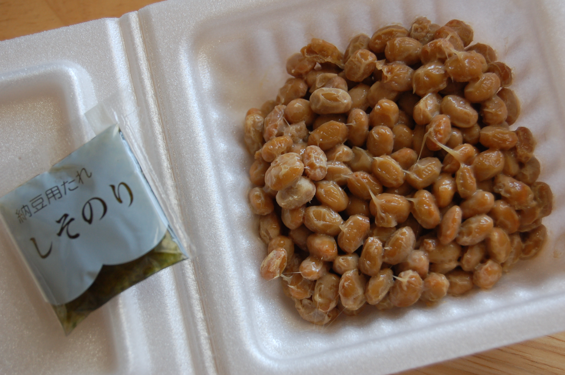 It's not for everyone. I like it though.